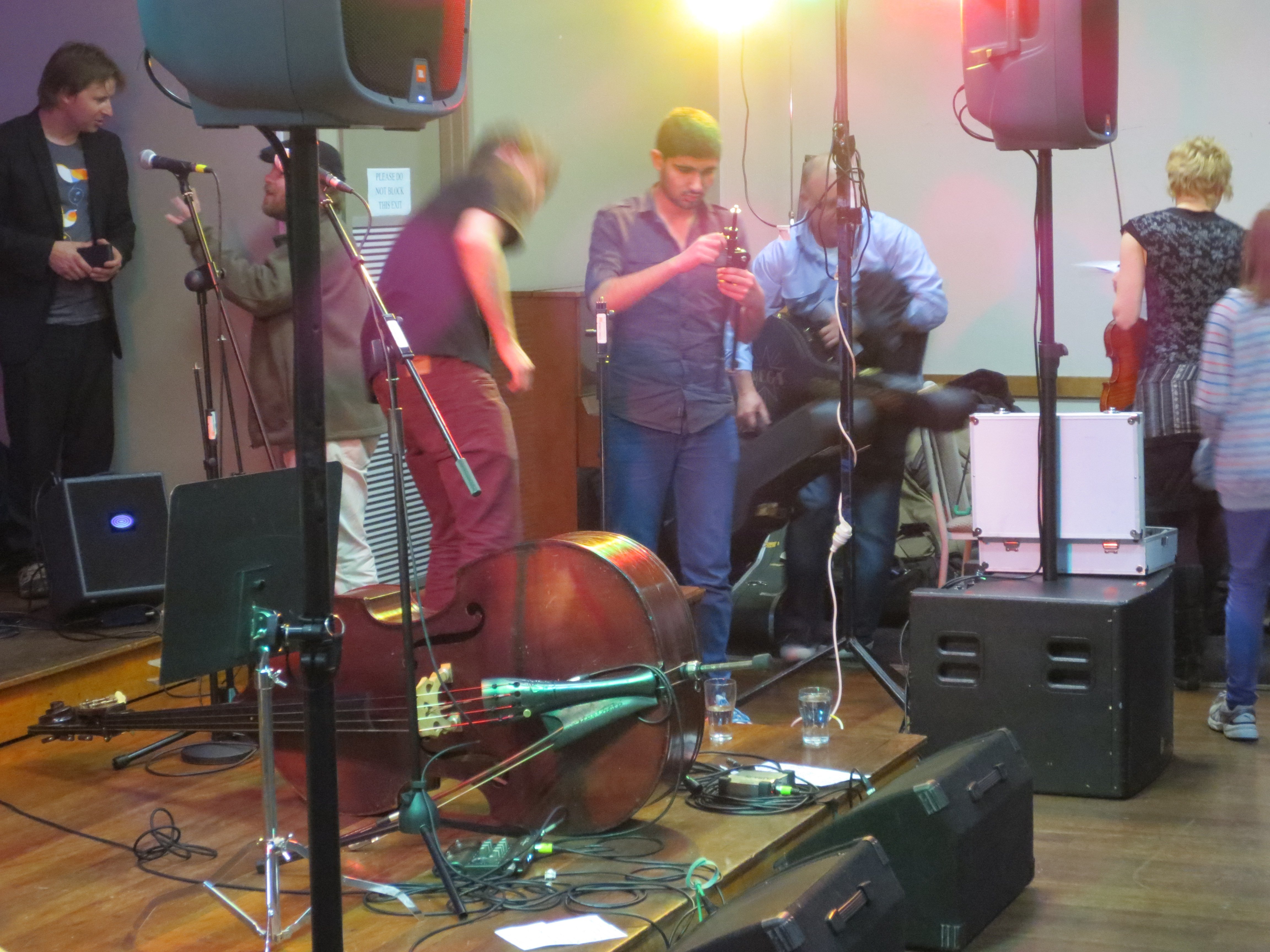 Stage showing break down and start of packing up microphones cables speakers on small stage